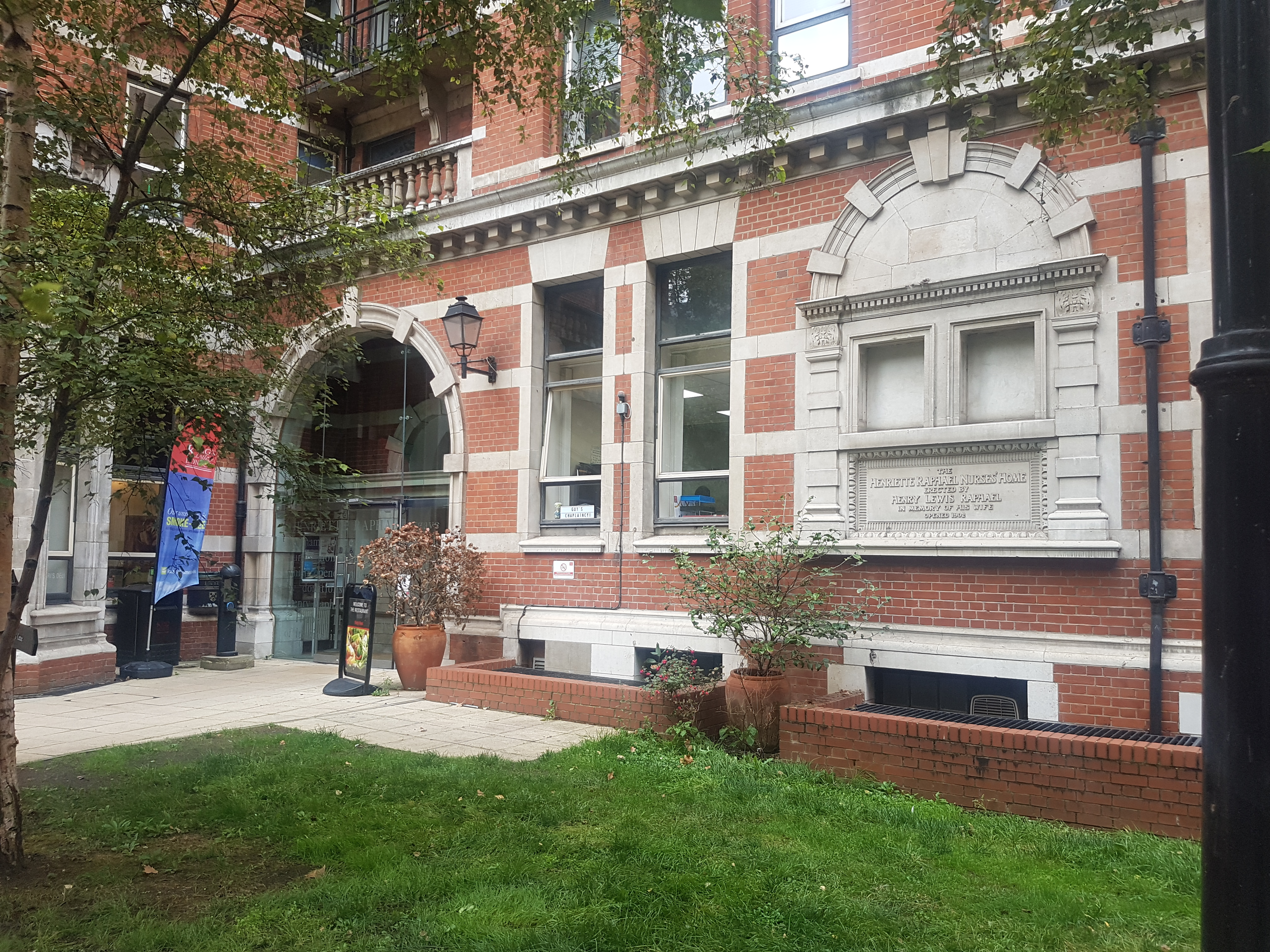 Henriette Raphael House, Guy's Campus